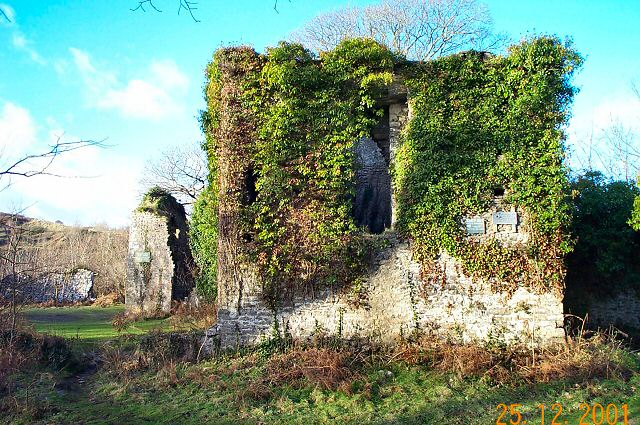 Candleston Castle - Glamorgan. The ruins of this castle that is now on the edge of the Merthyrmawr sand warren.